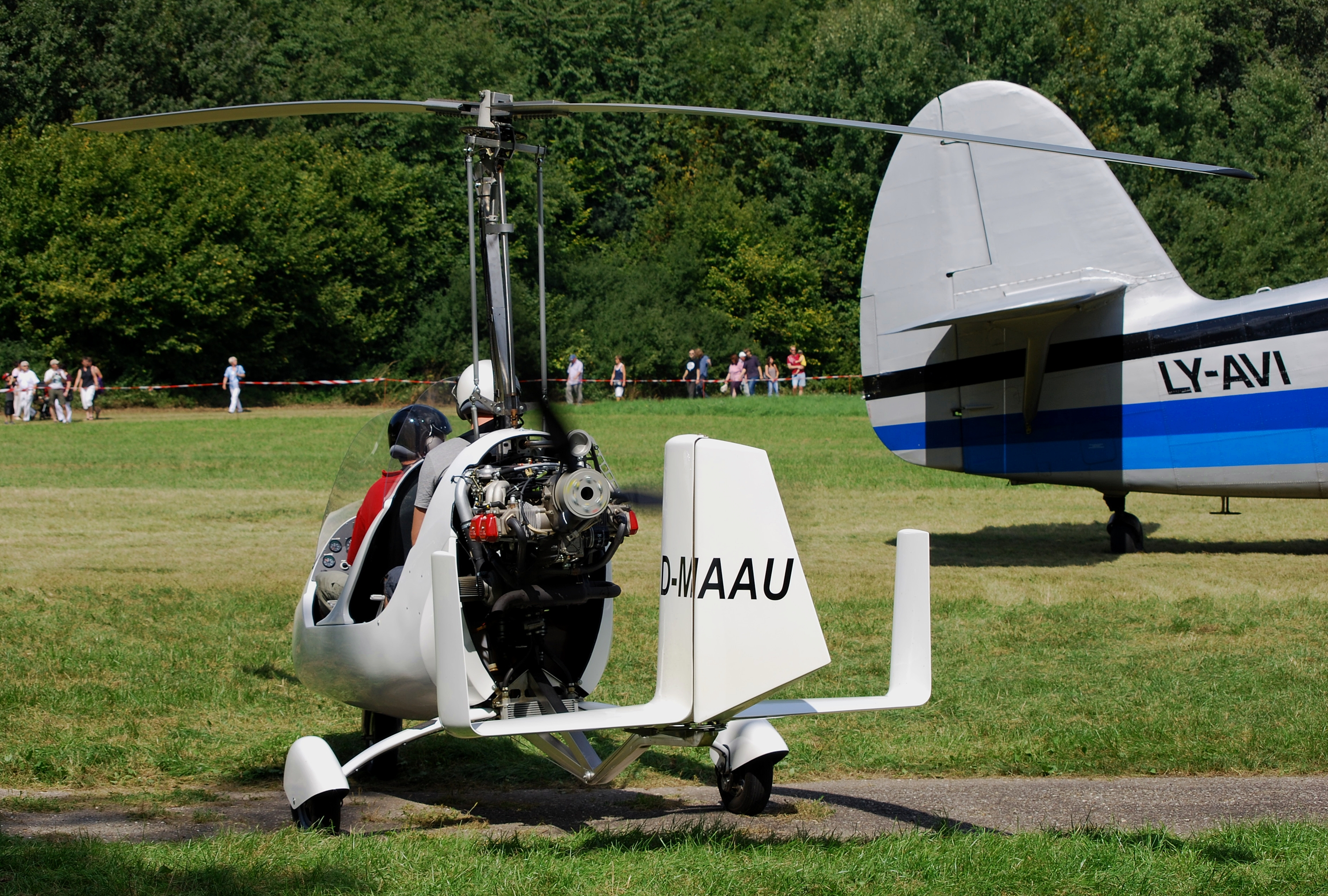 An AutoGyro MT-03 gyroplane (D-MAAU) in Löchgau, Germany.